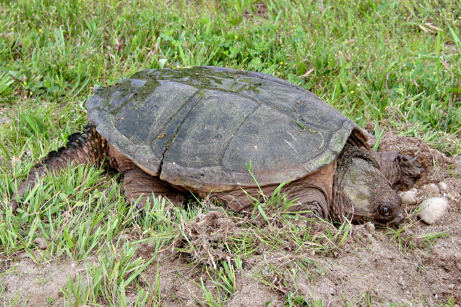 A female snapping turtle (Chelydra serpentina) looking for a suitable spot to lay her eggs near the St. Lawrence River in northern New York state.